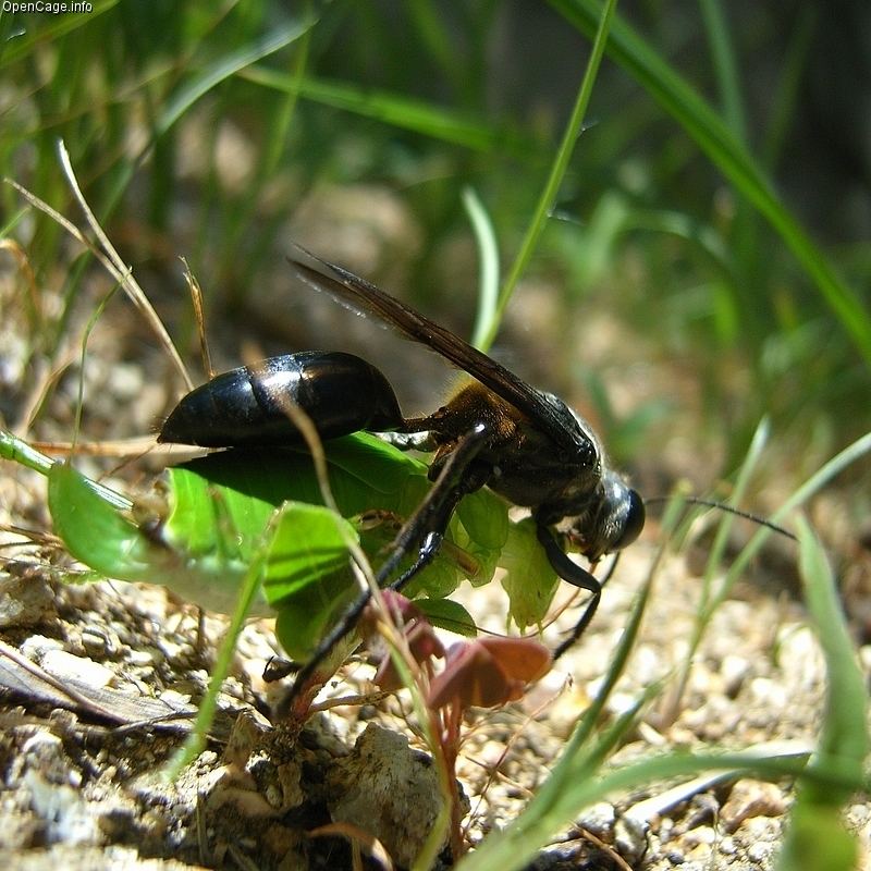 Sphex argentatus fumosus